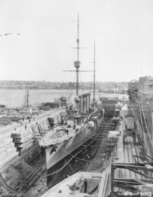 AWM caption : "Cockatoo Island, Sydney. 8 May 1917. The Japanese Navy light cruiser Hirado in dry dock. Hirado was one of the Japanese cruisers which patrolled off the Australian coast at various times."